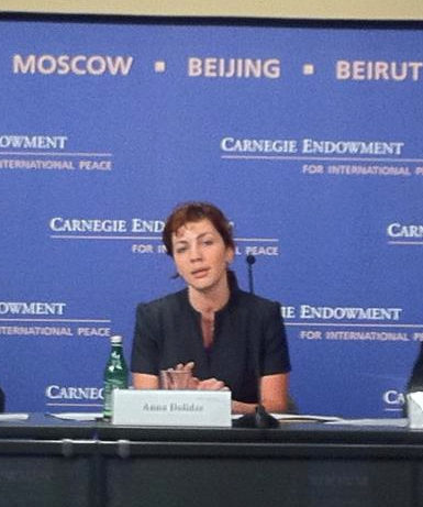 photo of anna dolidze